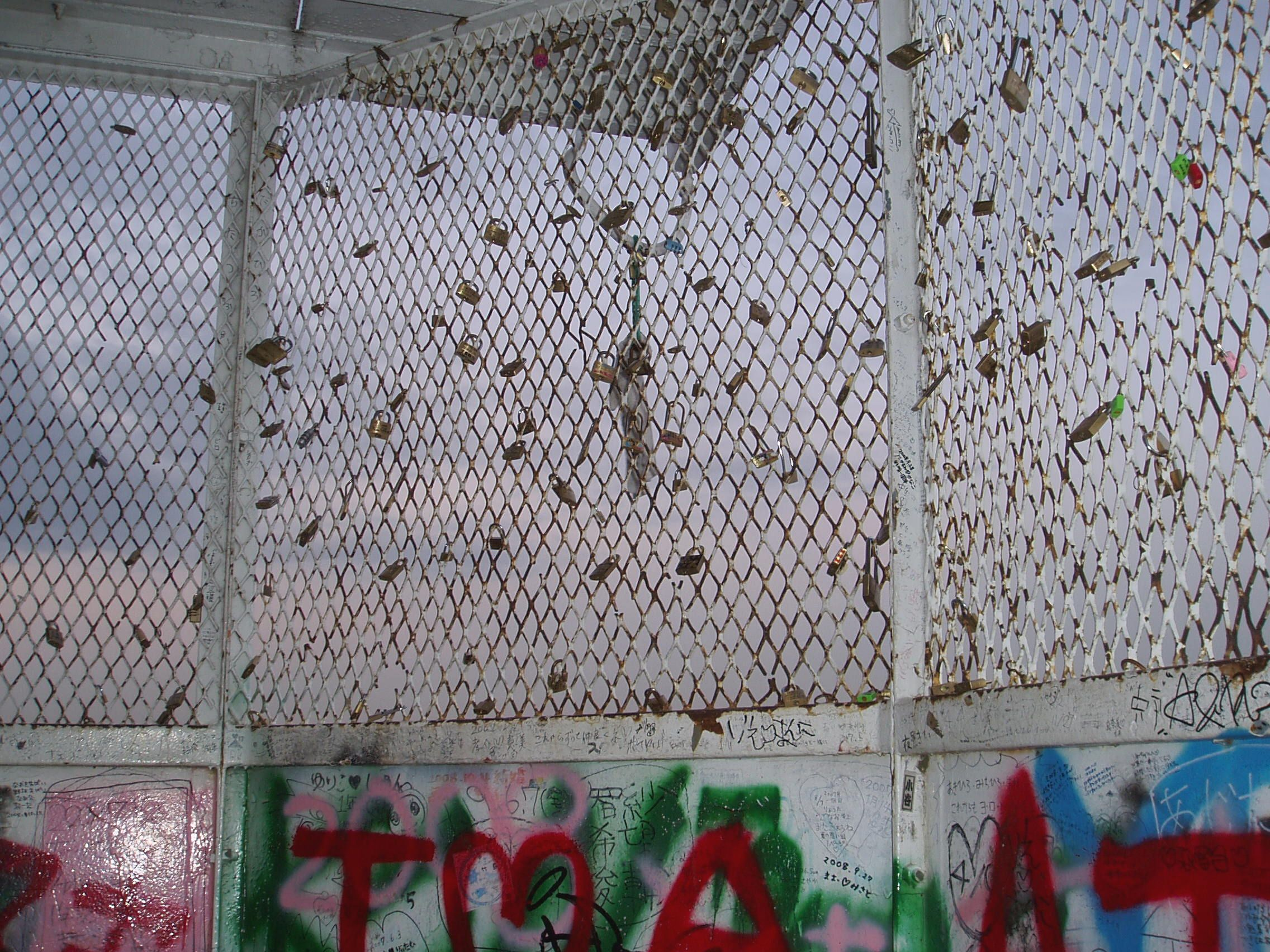 The love padlocks locked by the fence of the observatory in the Shonandaira television tower.